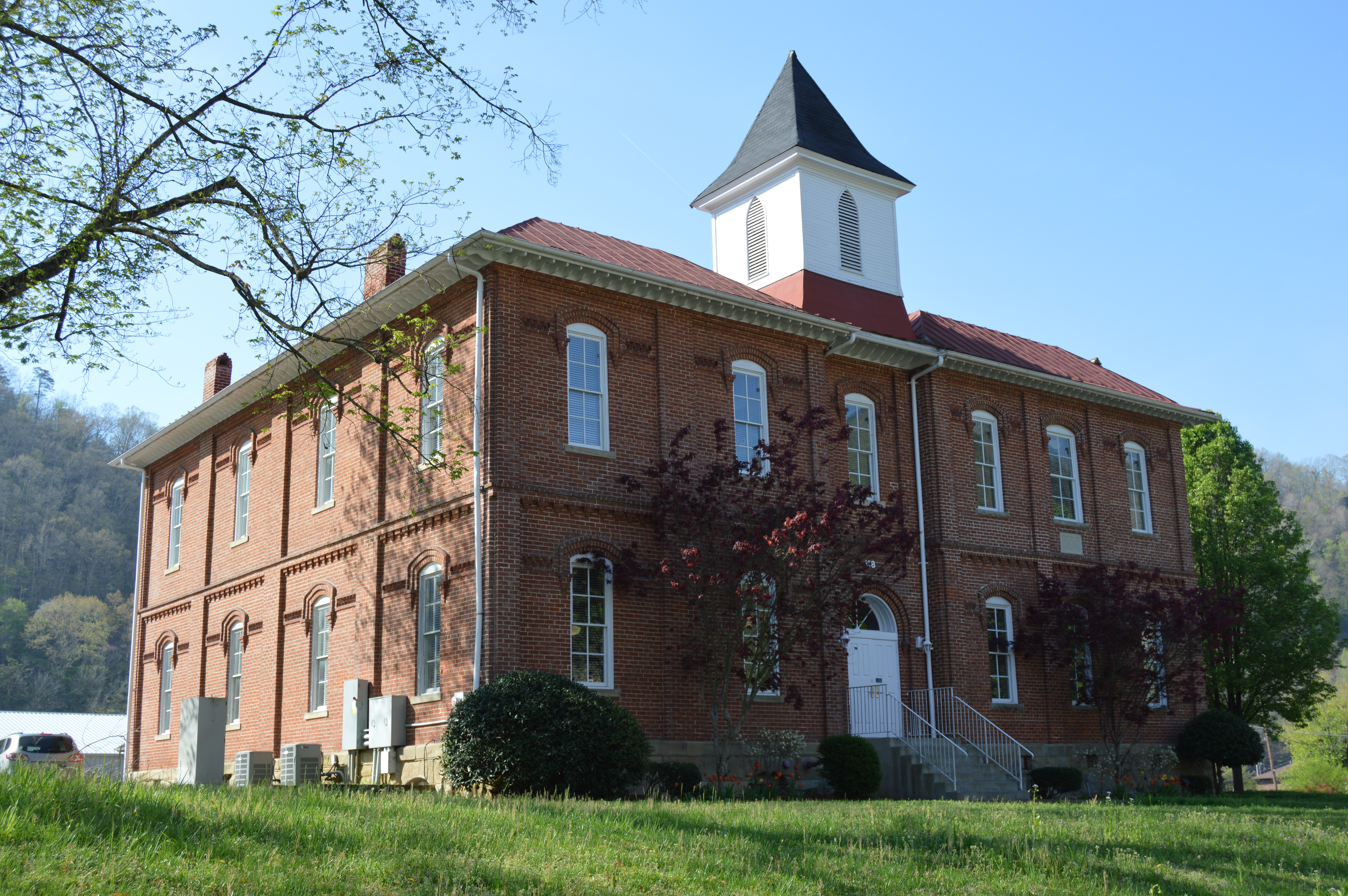 Front and eastern side of the Pikeville College Academy Building, located on College Street in Pikeville, Kentucky, United States. Built in 1890, it is listed on the National Register of Historic Places.